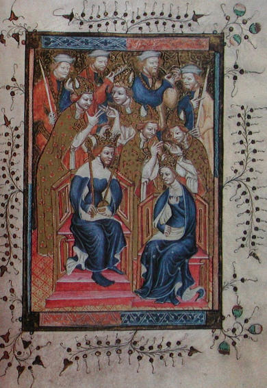 Liber regalis